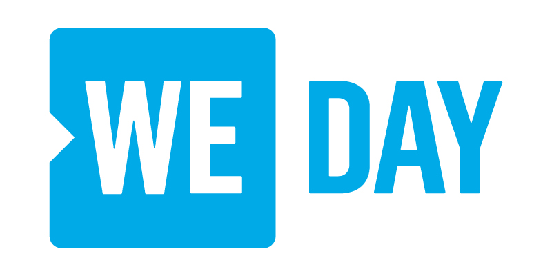 Logo for we day event